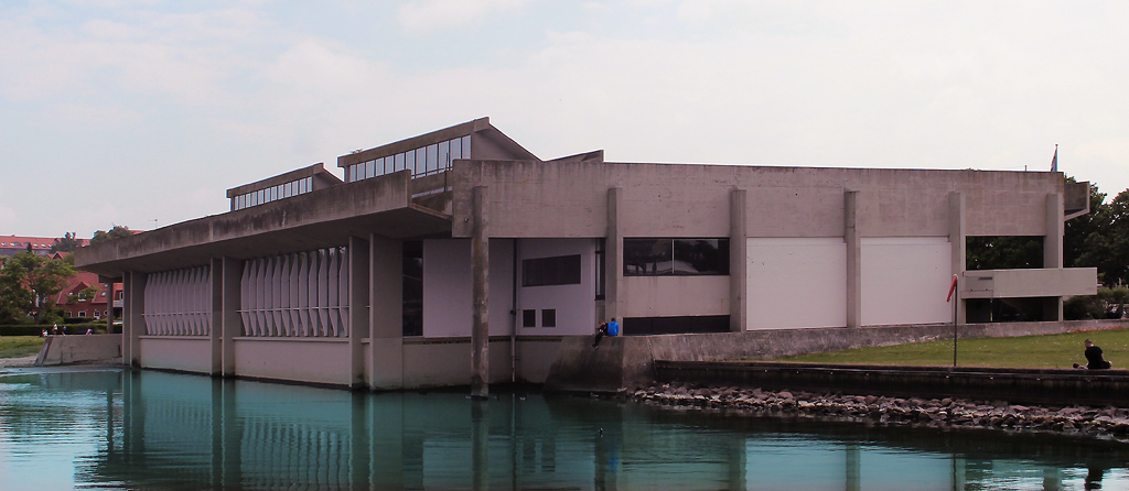 Roskilde Viking Ship Museum, Denmark.